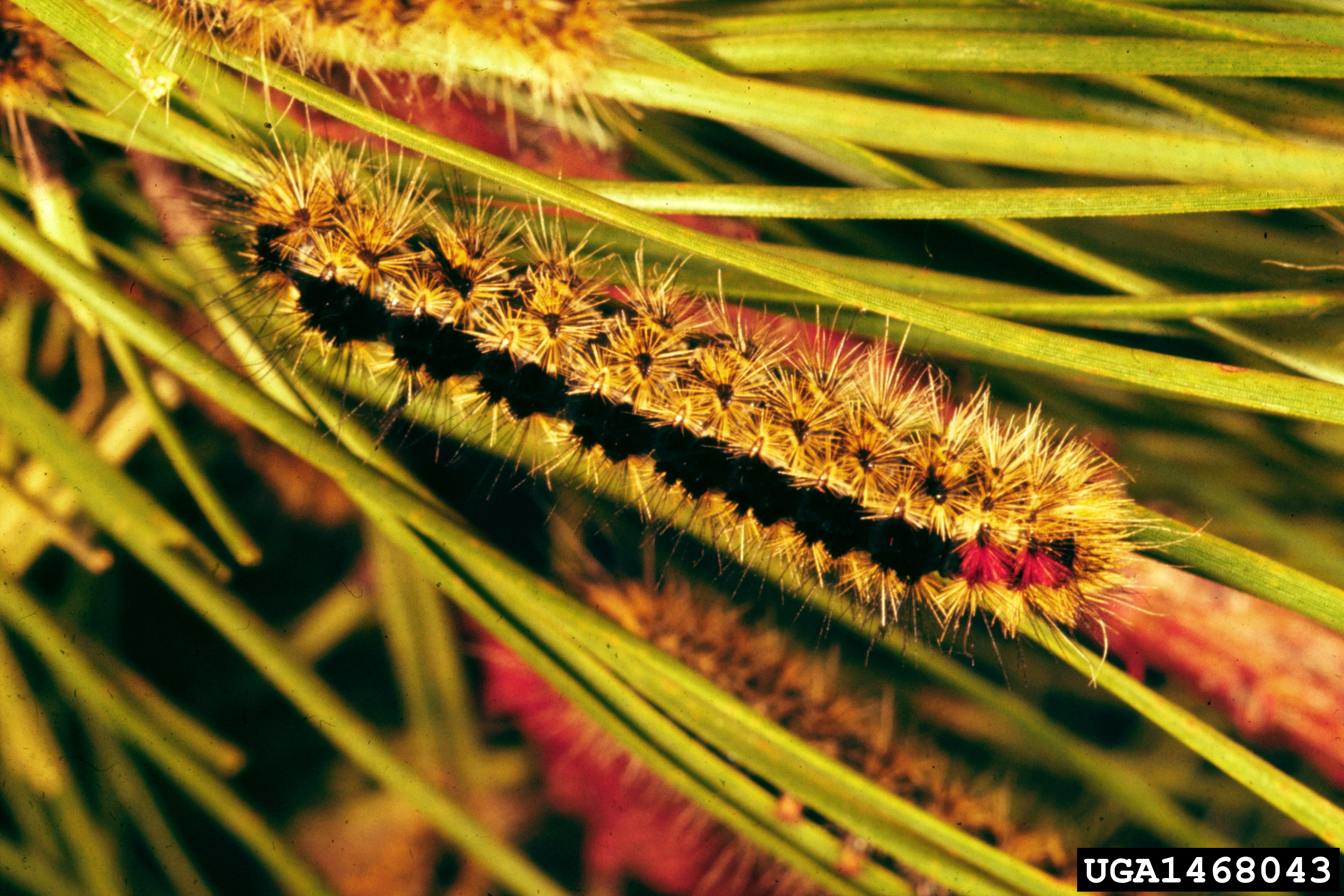 Lophocampa ingens H. Edwards_larva